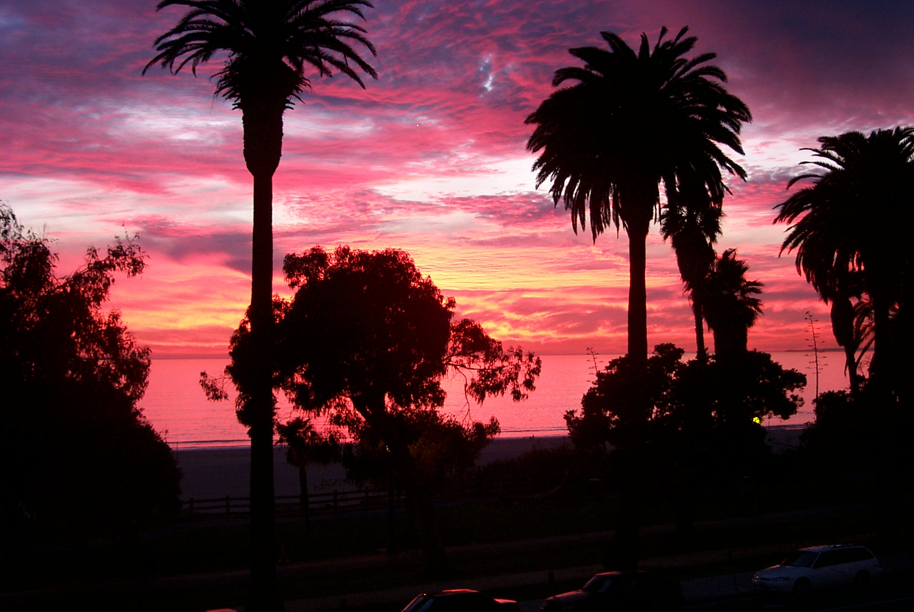 this is an unedited photo.